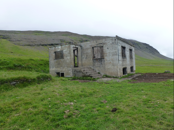 Karlsskáli 20.júlí.2014